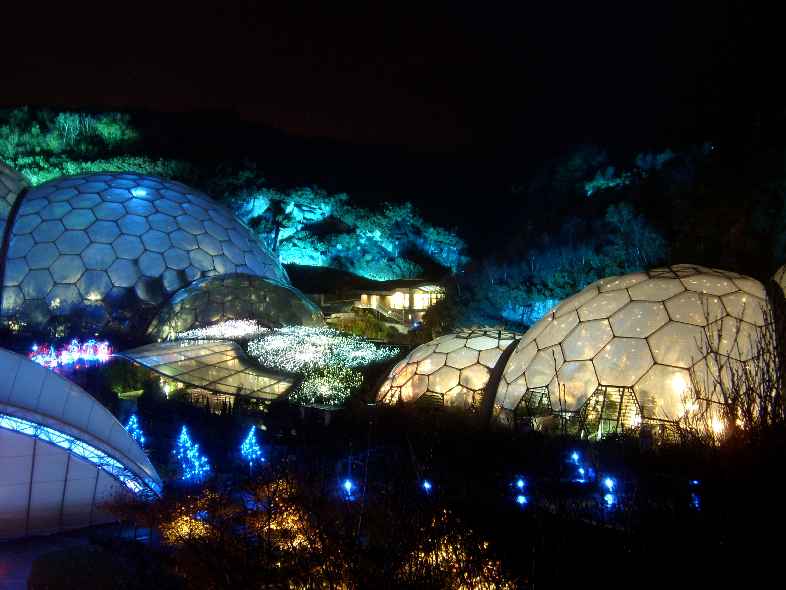 Eden Project Winter 2008 showing Bruce Munro field of Light